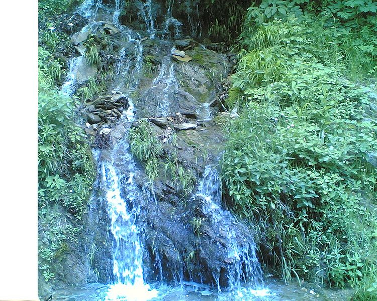 The waterfall at the Mount Karcı, Denizli